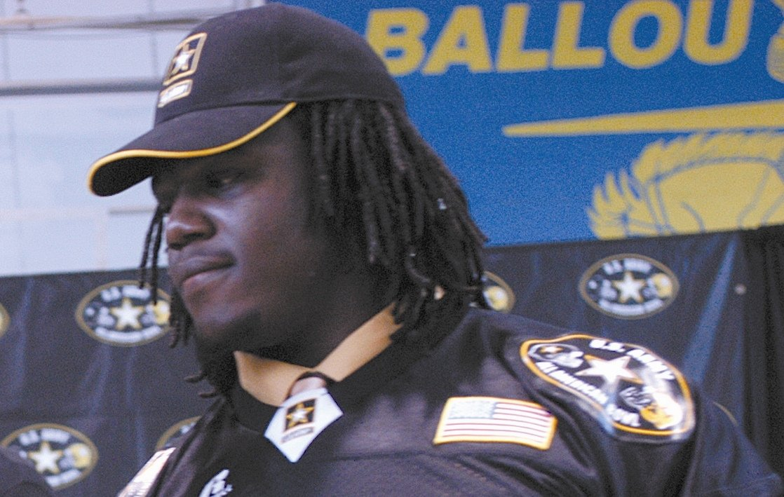 Army Vice Chief of Staff Gen. Richard Cody congratulates defensive tackle Marvin Austin on his selection as the first member of the Army All-American Bowl East team for 2007.